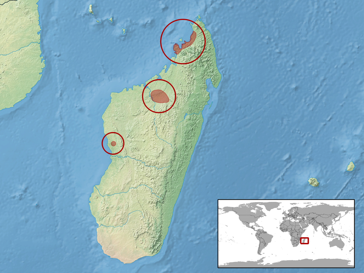 geographic distribution of Uroplatus henkeli (Native: Madagascar)